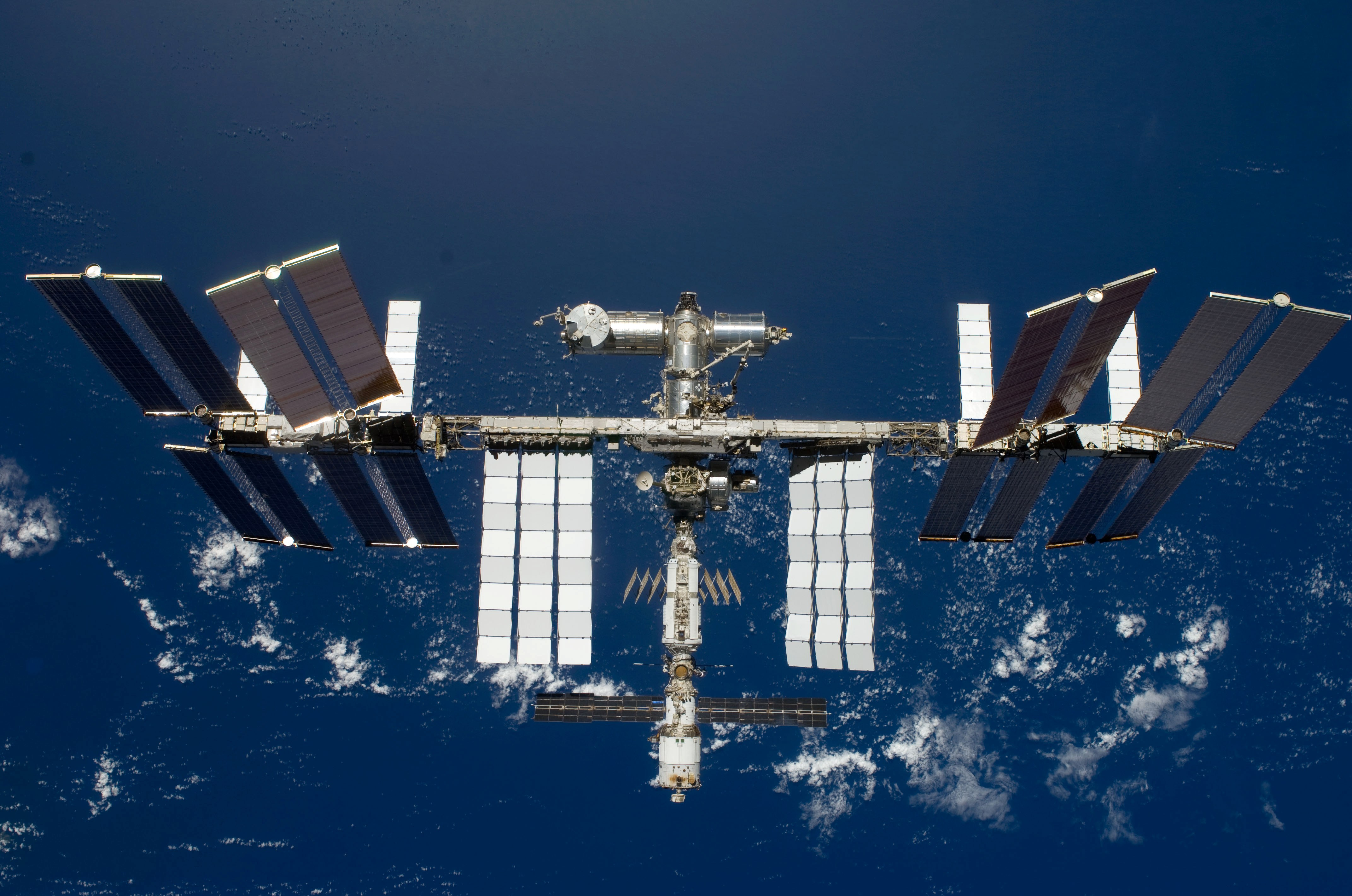 S119-E-008577 (25 March 2009) --- Backdropped by a blue and white Earth, the International Space Station is seen from Space Shuttle Discovery as the two spacecraft begin their relative separation. Earlier the STS-119 and Expedition 18 crews concluded 9 days, 20 hours and 10 minutes of cooperative work onboard the shuttle and station. Undocking of the two spacecraft occurred at 2:53 p.m. (CDT) on March 25, 2009.